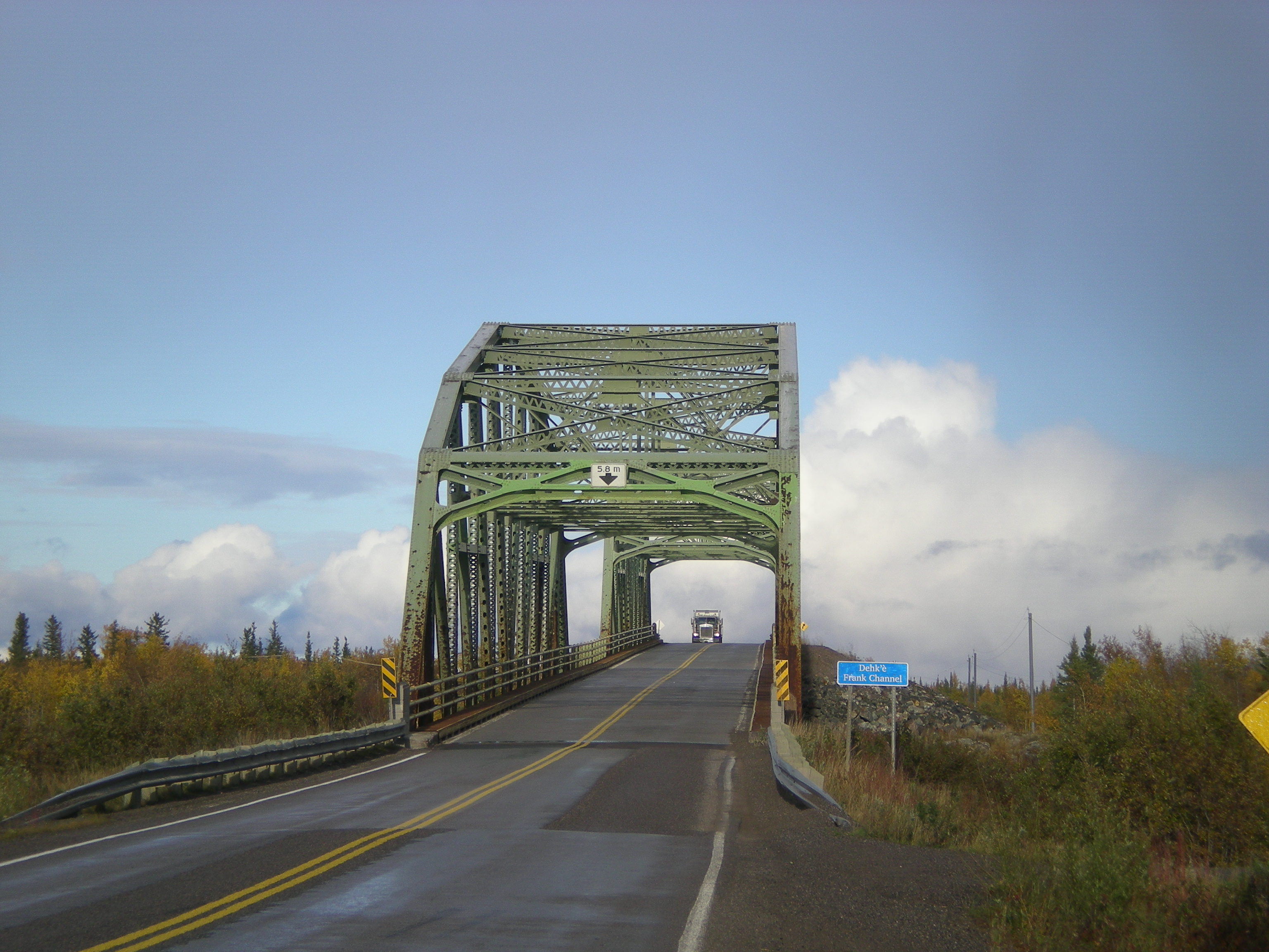 Bridge over the Frank Channel near Behchoko on the Yellowknife Highway.